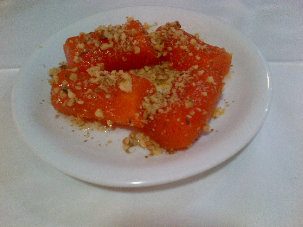 "Kabak tatlısı" or pumpkin dessert from Turkey, with chopped walnuts on top.